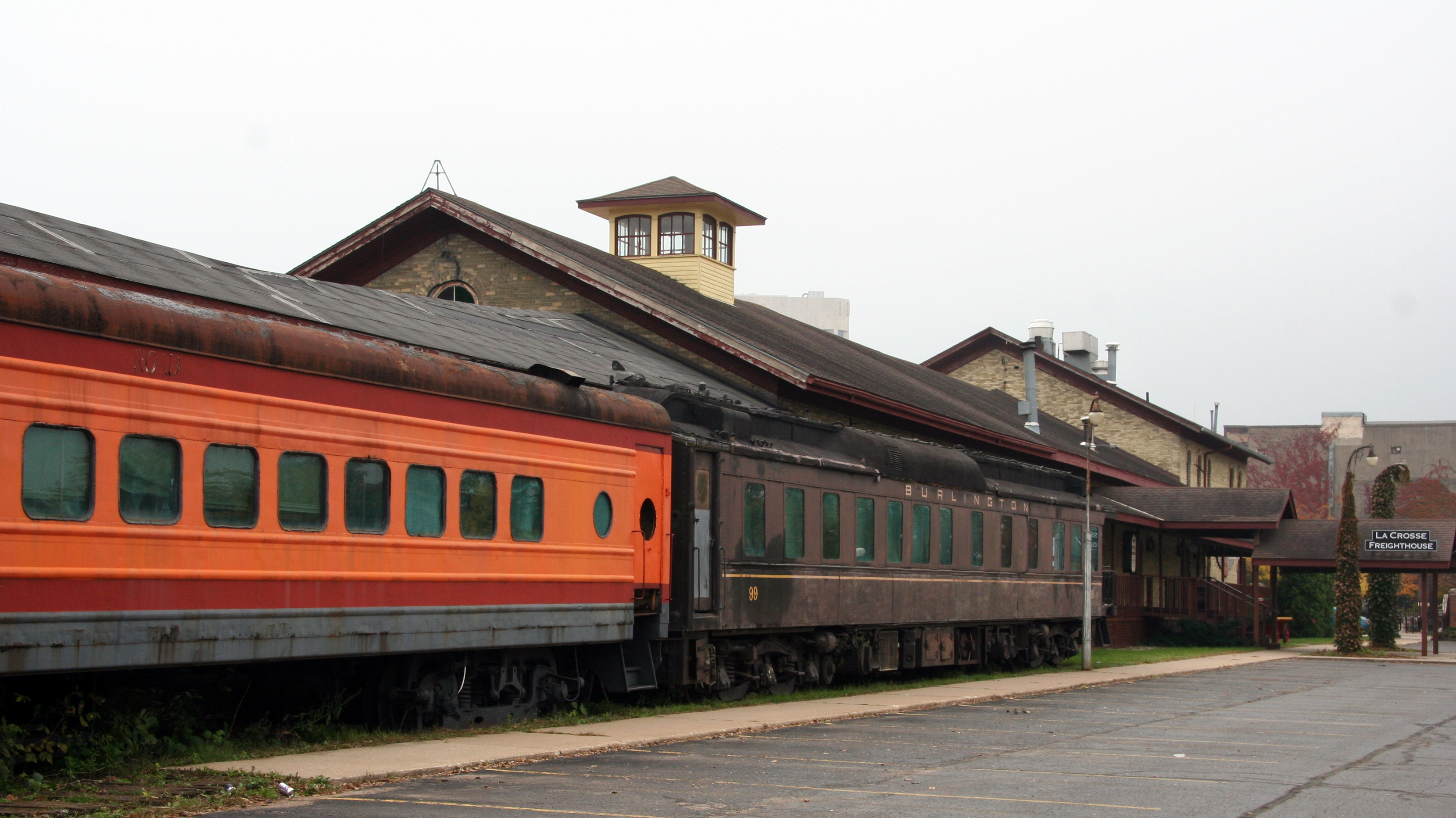 Historic Freight House and railroad cars on Front and Vine Streets in La Crosse, Wisconsin